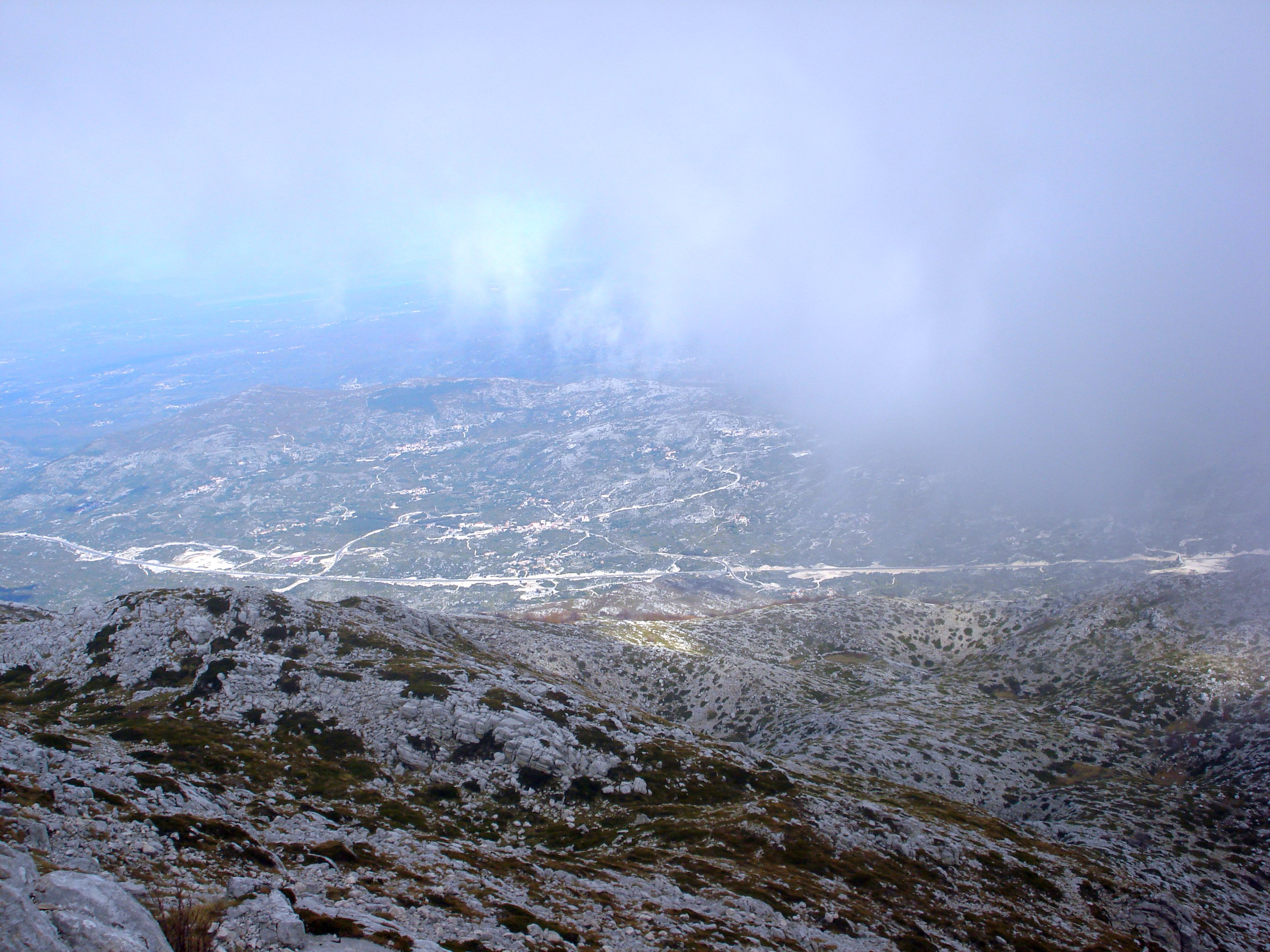 A view from Biokovo mountain top towards north